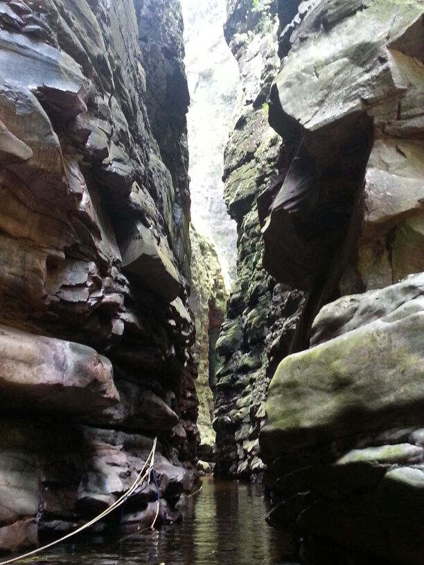 Español